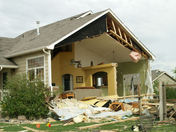 Photo of a destruction from tornado in Windsor, Colorado.